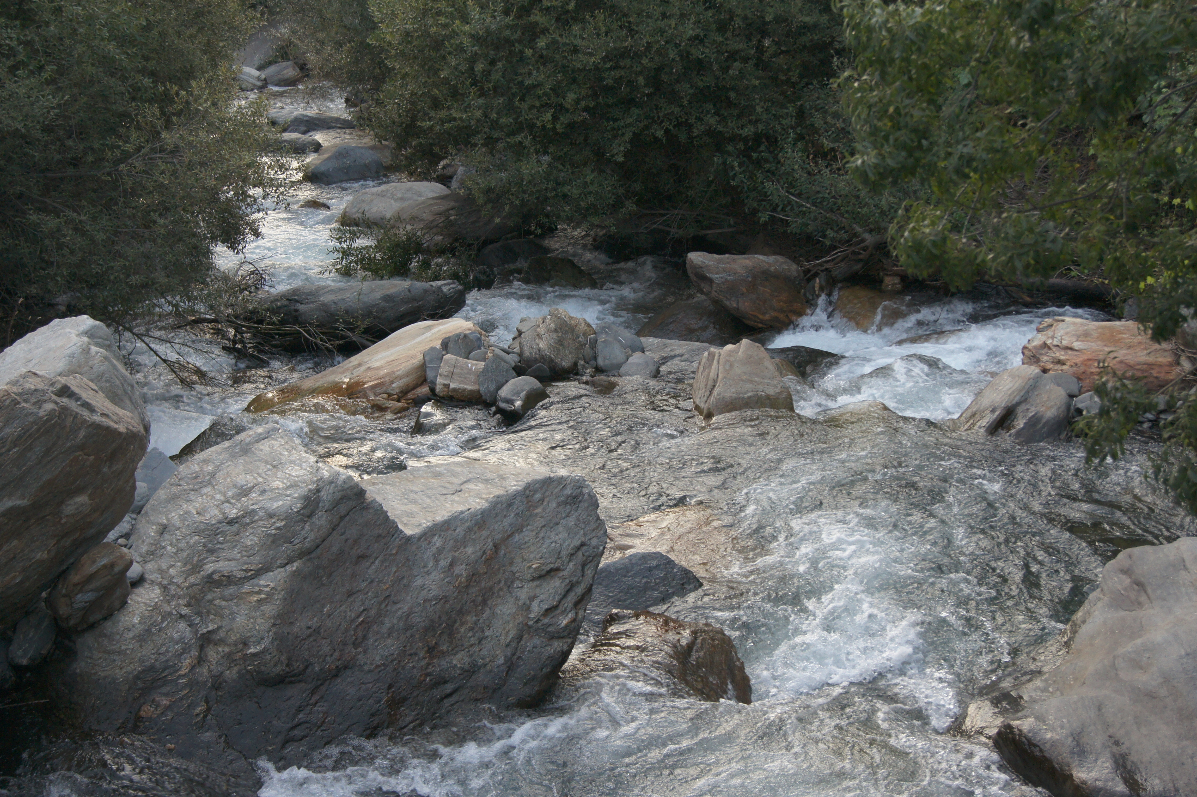 The Genil river, near its birth, Sierra Nevada, Granada Province, Spain